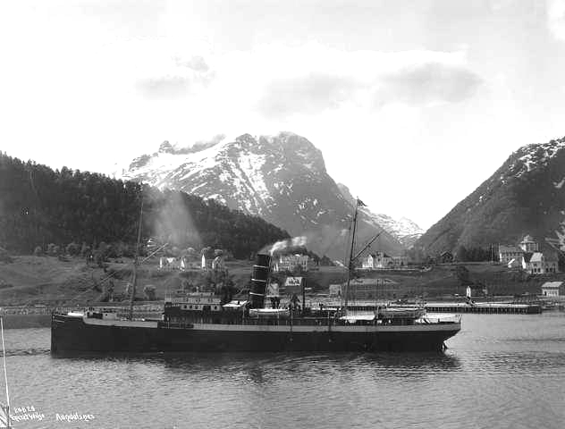 Norwegian passengership DS Irma, built in 1905. This ship sailed in the coastal express service (Hurtigruten) between 1931 and 1944. Photo is taken at Åndalsnes in Norway.